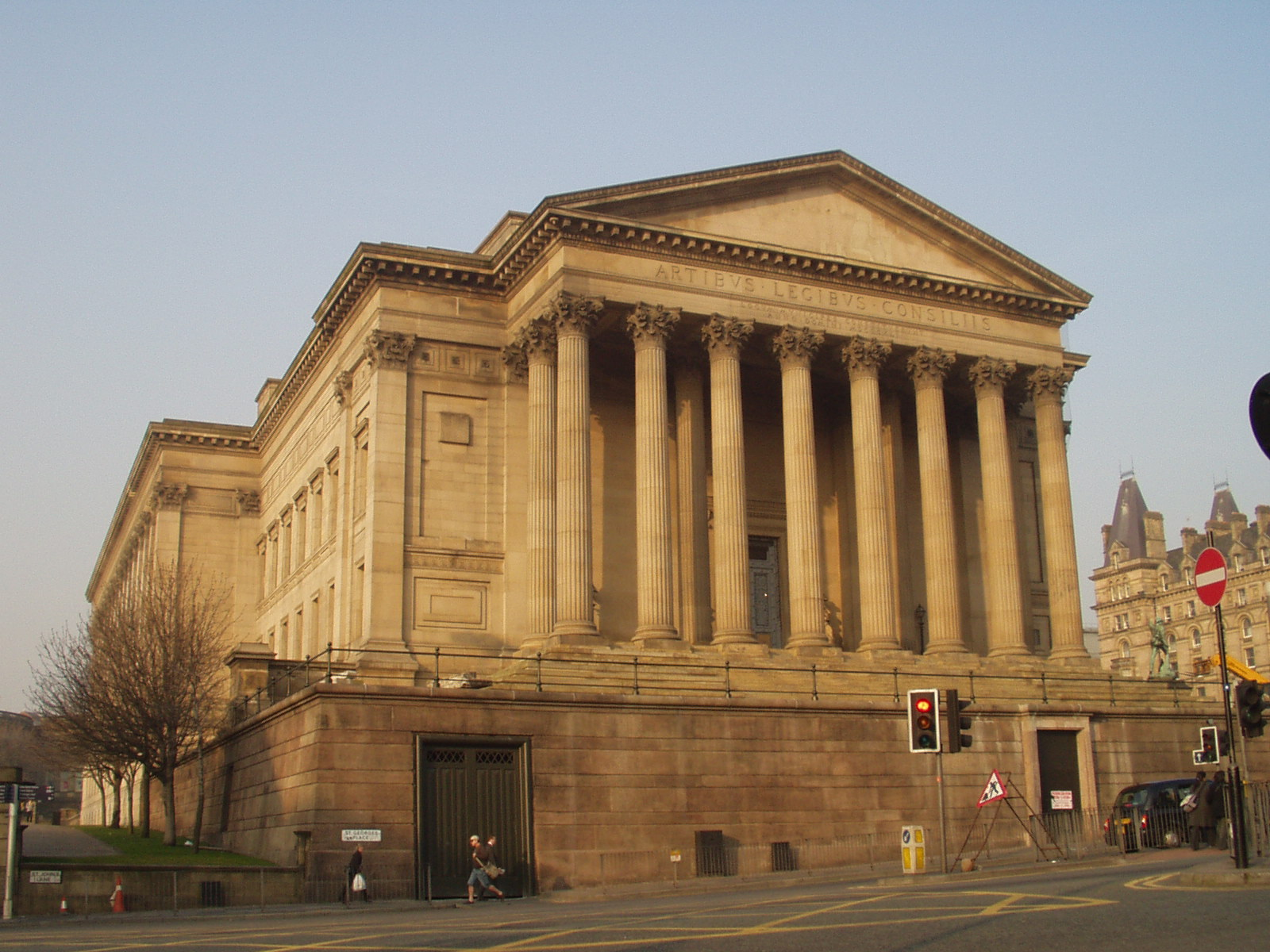 St Georges Hall, Liverpool, England